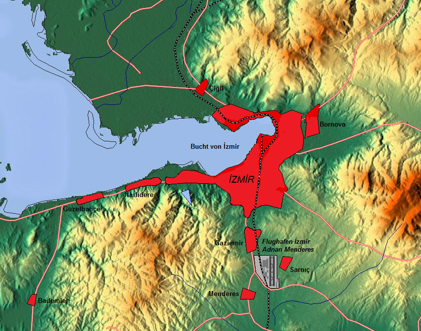 Map Izmir Airport ADB